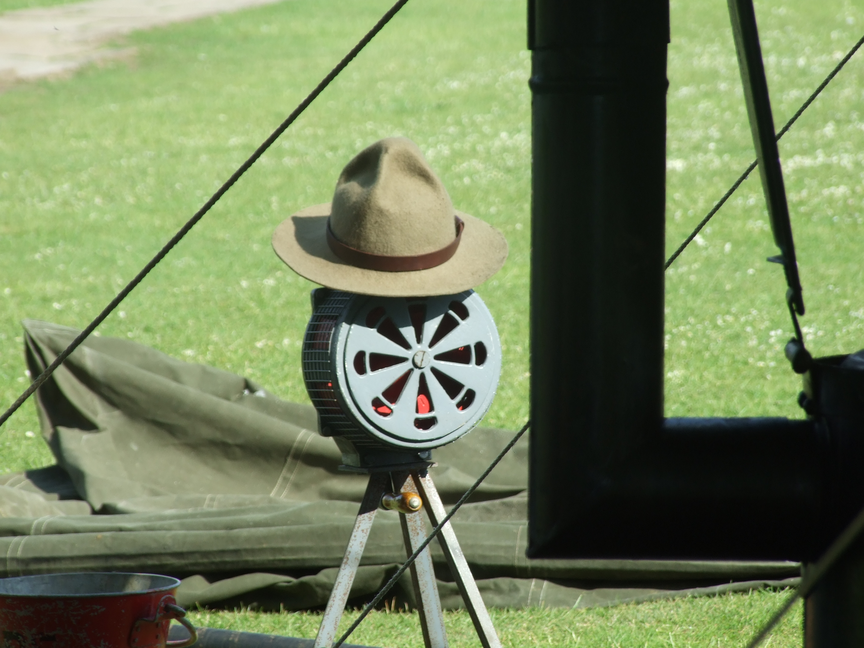 A hand cranked air raid siren at a festival at Clumber Park, Nottinghamshire, England.